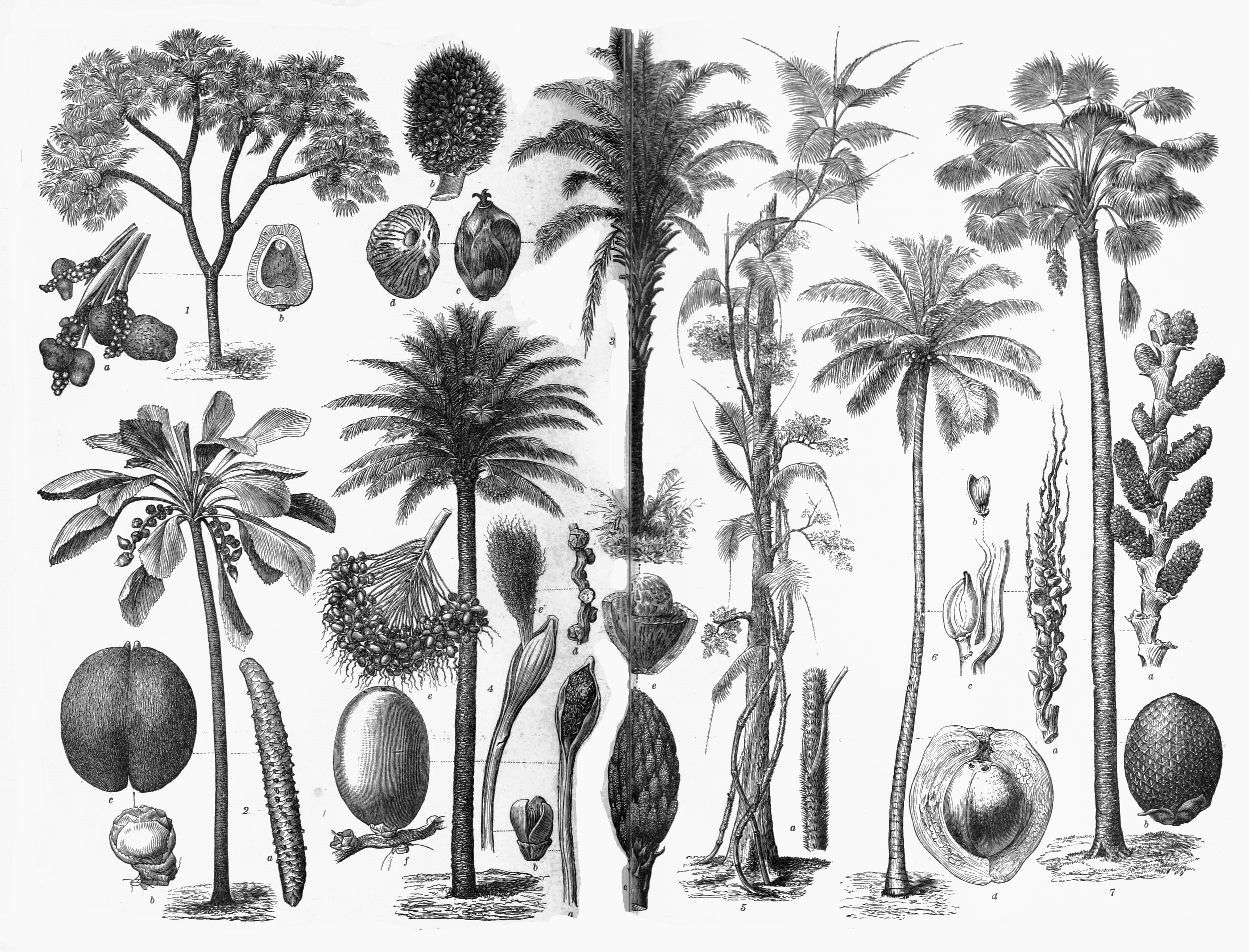 Arecaceae 1-Hyphaene thebaica 2-Lodoicea maldivica 3-Elaeis guineensis 4-Phoenix dactylifera 5-Calamus rotang 1-Cocos nucifera